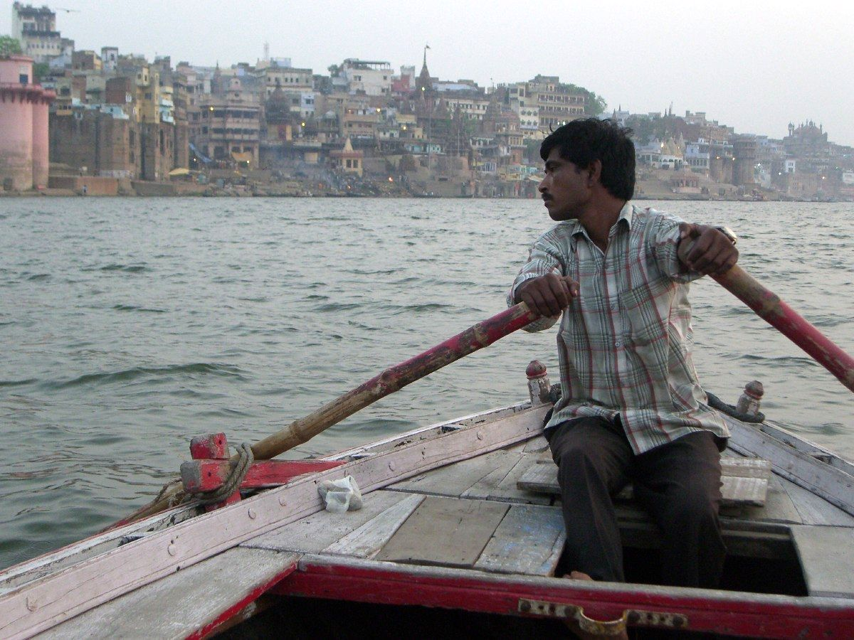 Ferryman, Varanasi, India